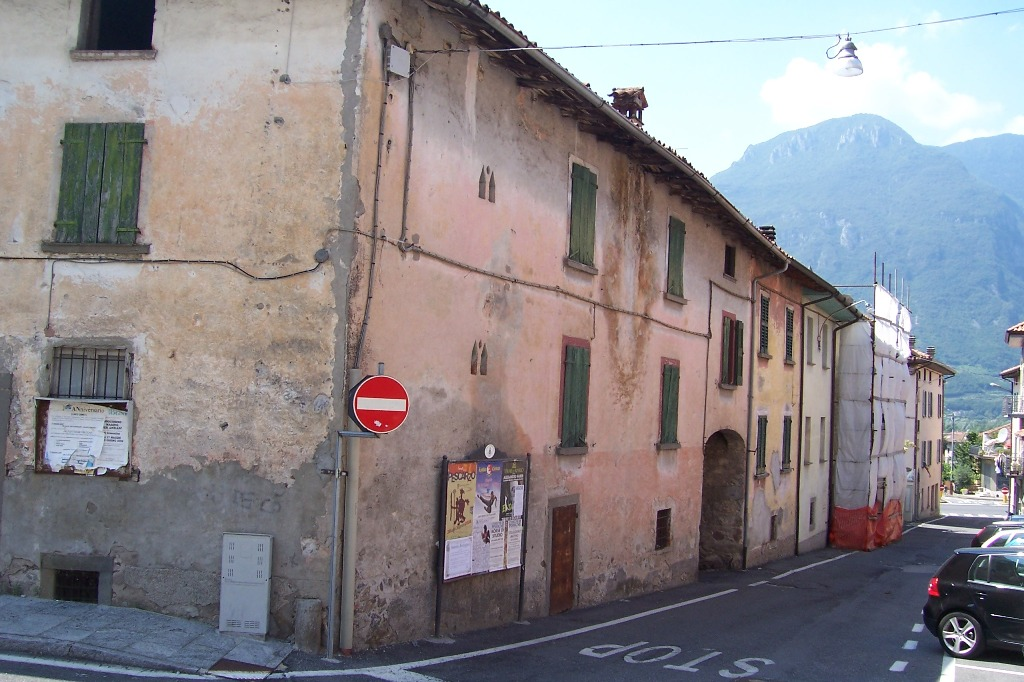 House, Gratacasolo, Val Camonica